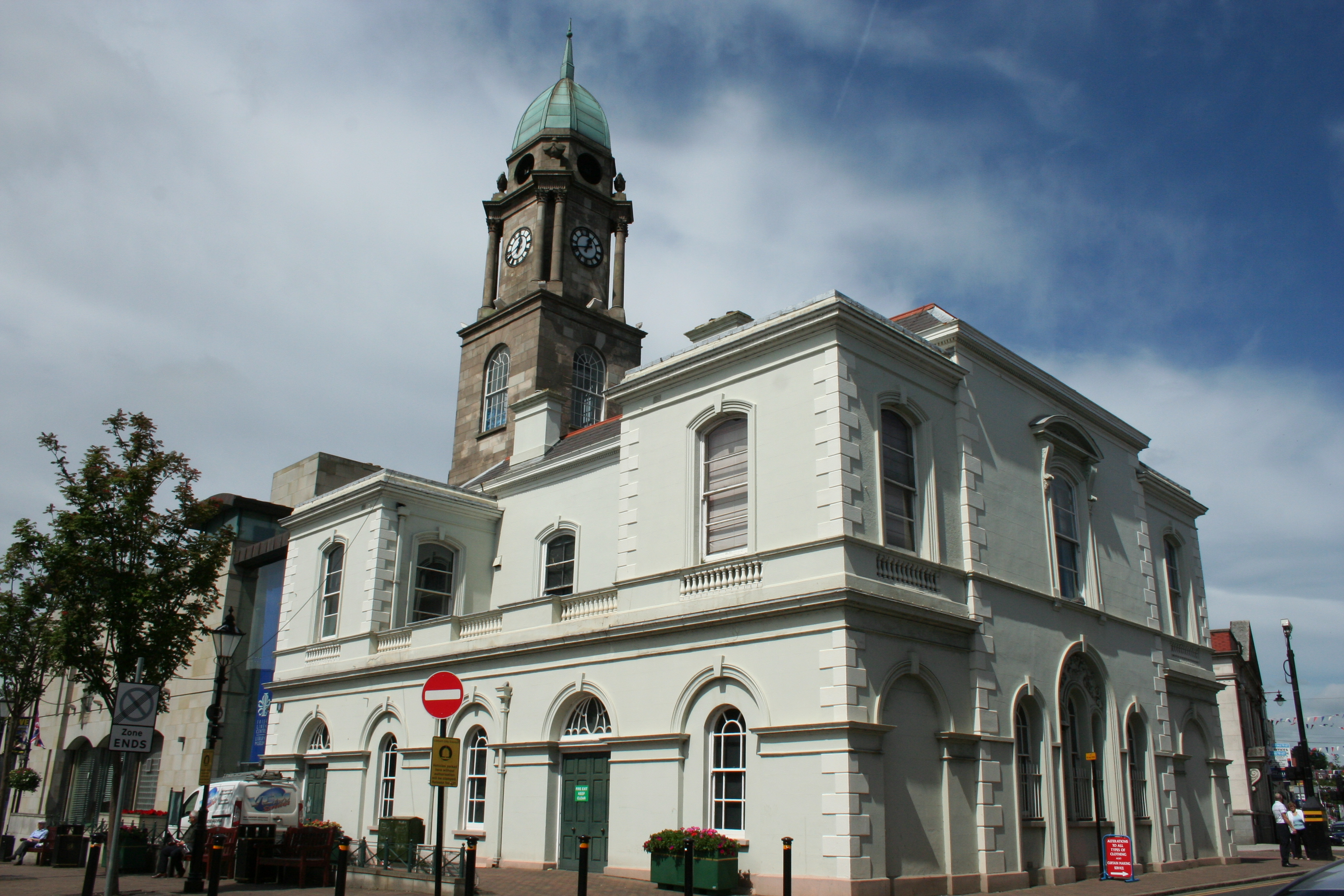 Lisburn Market House now forming part of the Irish Linen Centre/Lisburn Museum